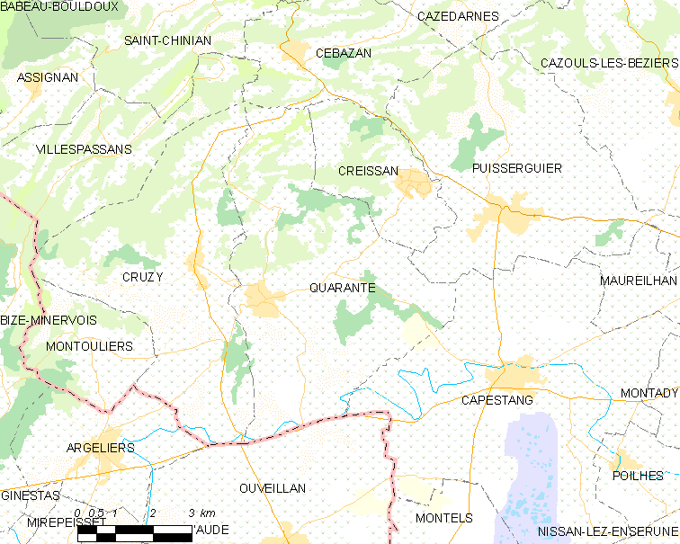 Map commune FR insee code 34226.png - Quarante (Hérault)